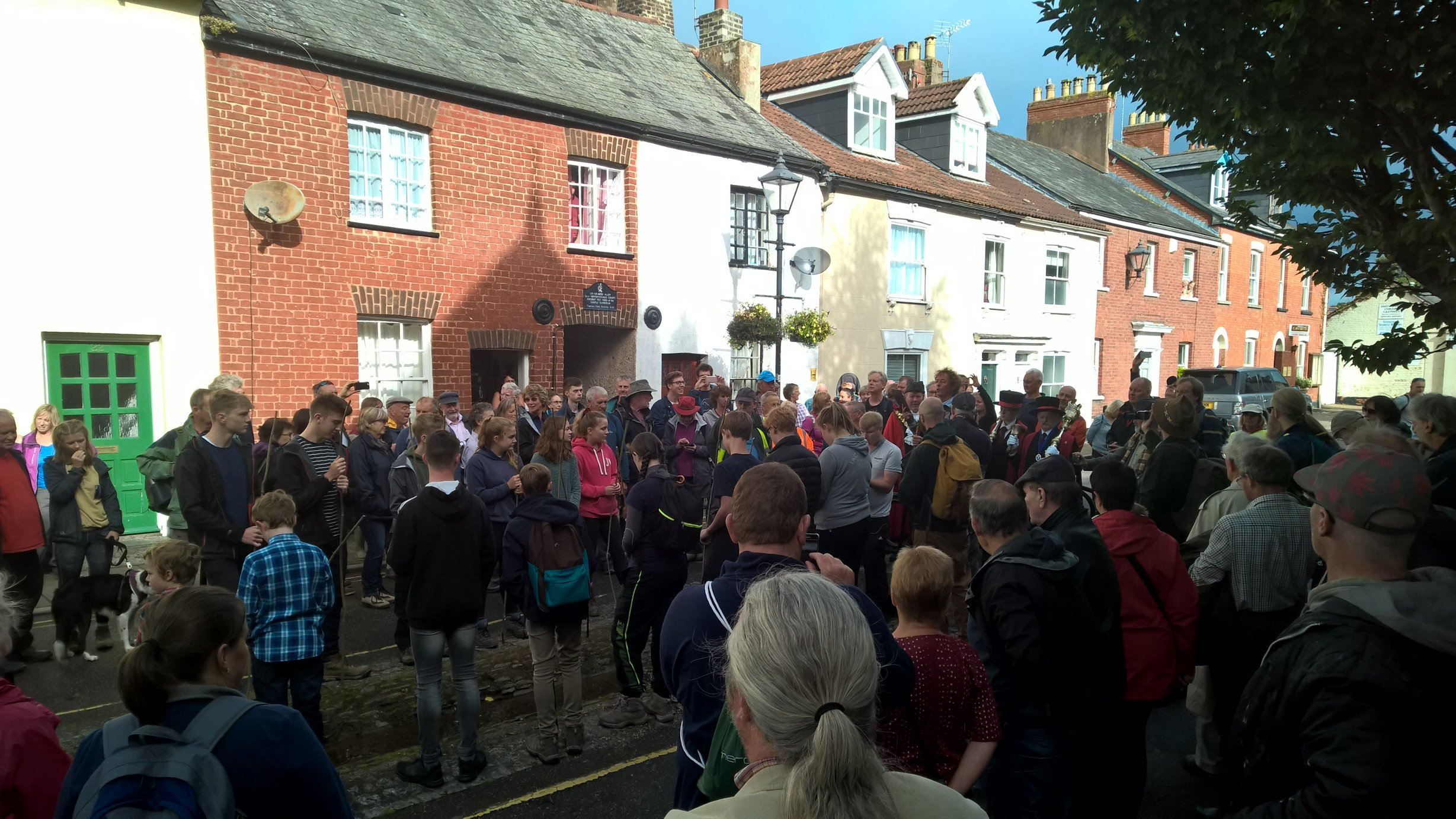 This photo shows a proclamation of the Tiverton Town leat by the bailiff of the hundred in Castle Street during the perambulation of the leat on 9th September 2017. The "withy boys and girls" can also be seen about to whip the stream with their "withy wands".